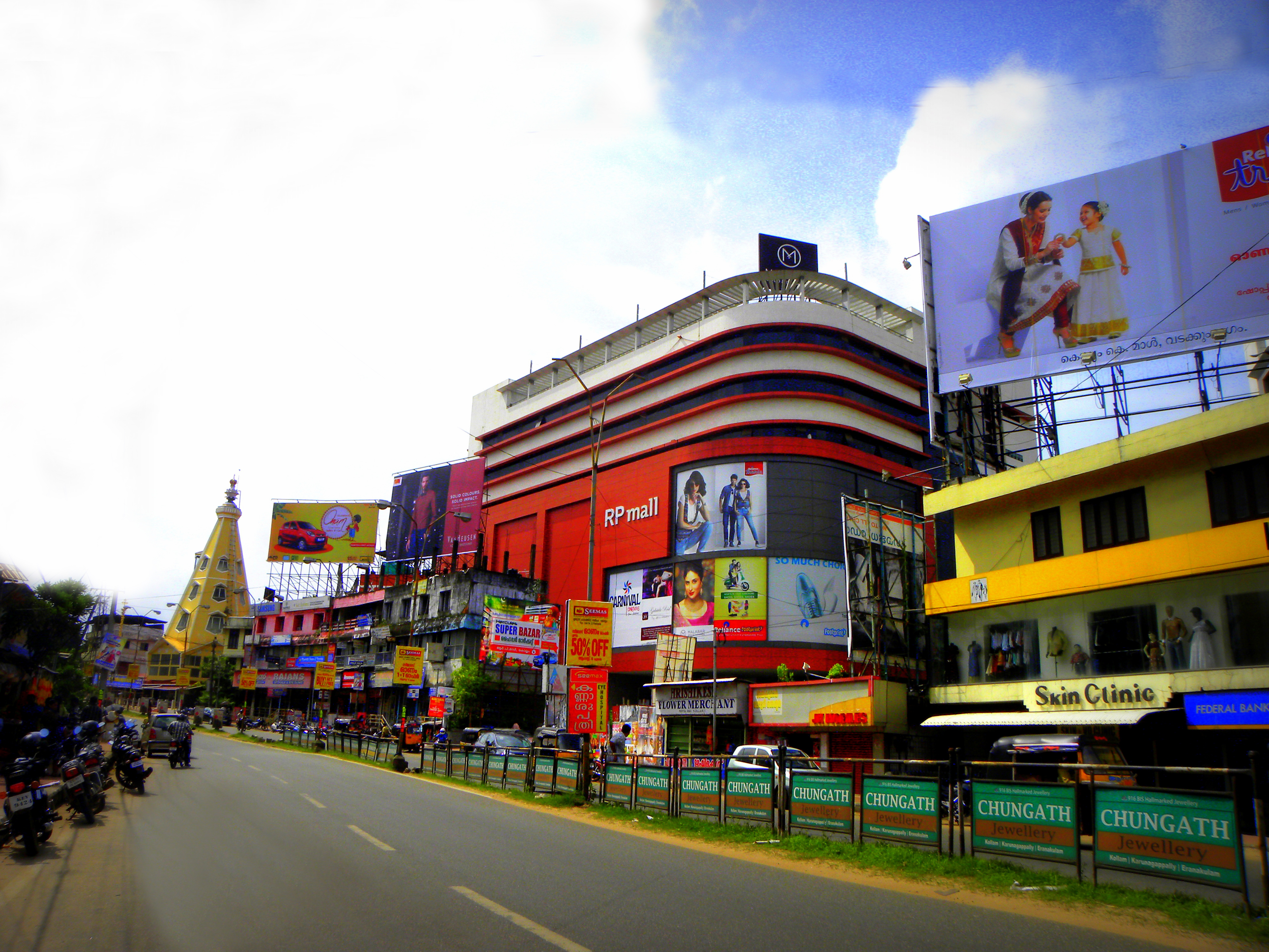 RP Mall, Kollam - Kollam was the third city in Kerala (after Kochi and Kozhikode) to adopt the shopping mall culture, eith the inauguration of RP Mall at off Chinnakada